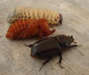 The rhinoceros beetle goes through three stages after it hatches from an egg (not pictured). First it is a larva for up to 2 years then it morphs and finally is an adult. Supposedly Aegopsis curvicornis Dysmorodrepanis talk 01:28, 13 April 2011 (UTC)